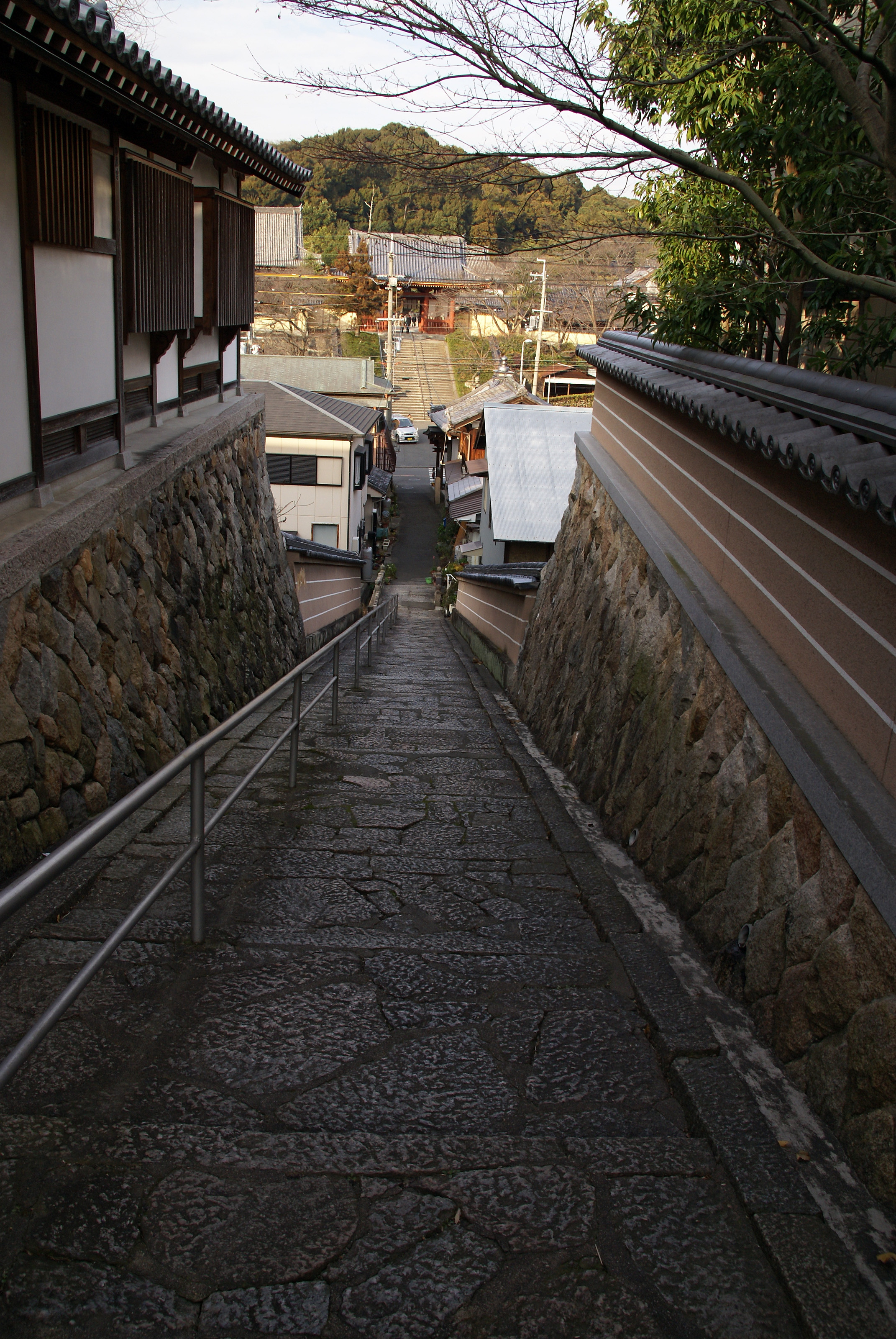 Saihoin in Taishi, Osaka prefecture, Japan